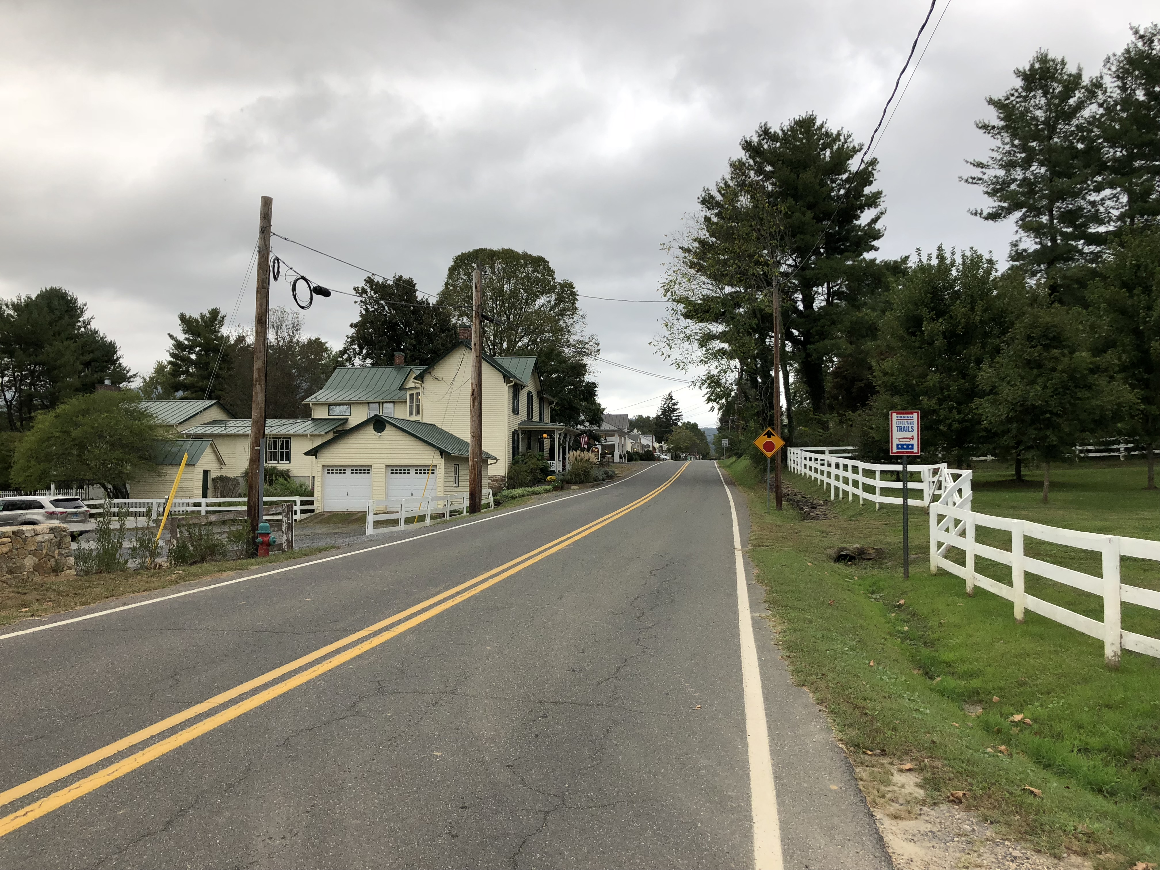 View east along U.S. Route 211 Business and north along U.S. Route 522 Business (Main Street) at Mount Prospect Lane in Washington, Rappahannock County, Virginia